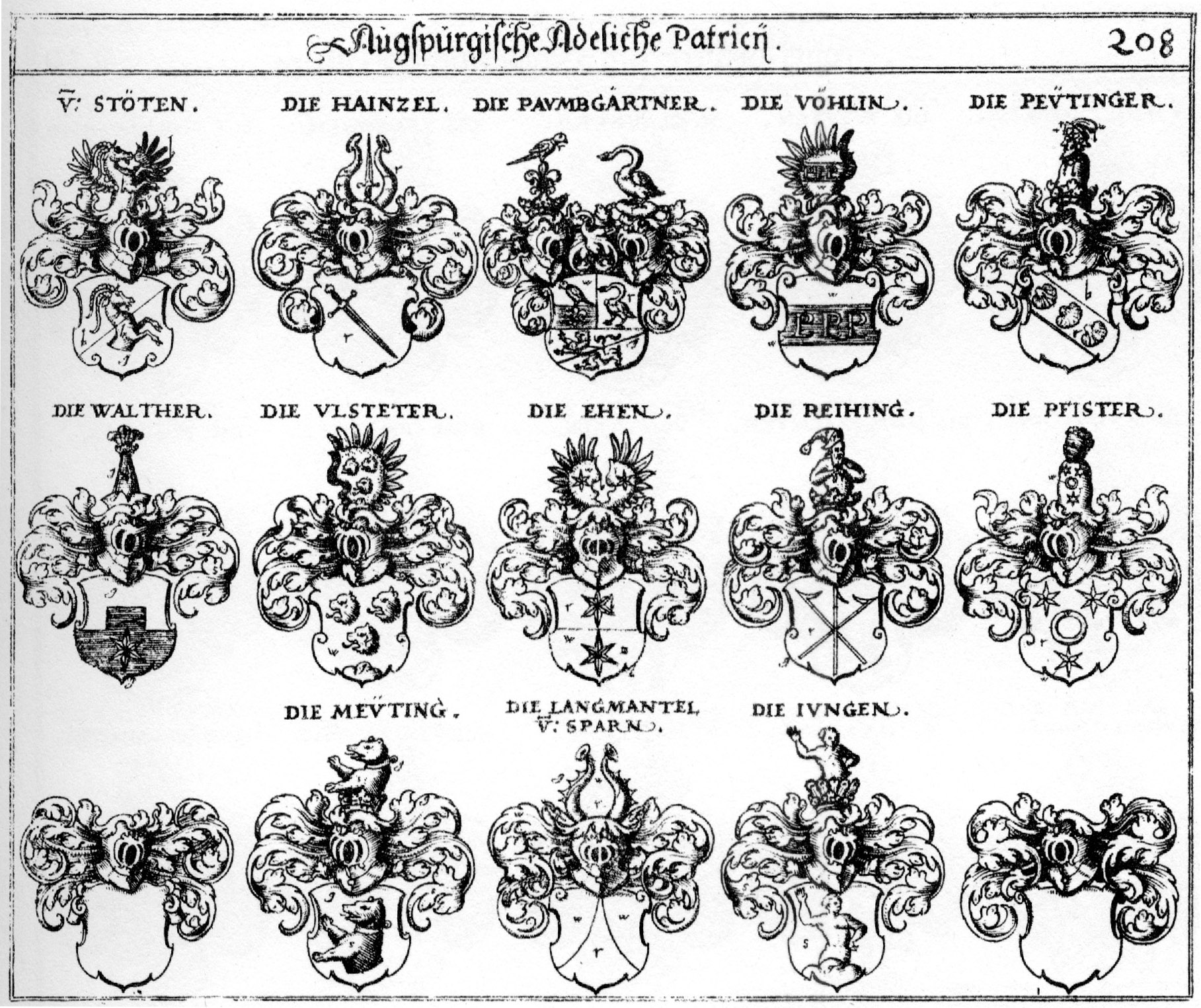 Coats of arms of Germany. Augsburgische Adeliche Patrizier. in: Wappenbuch, 1701